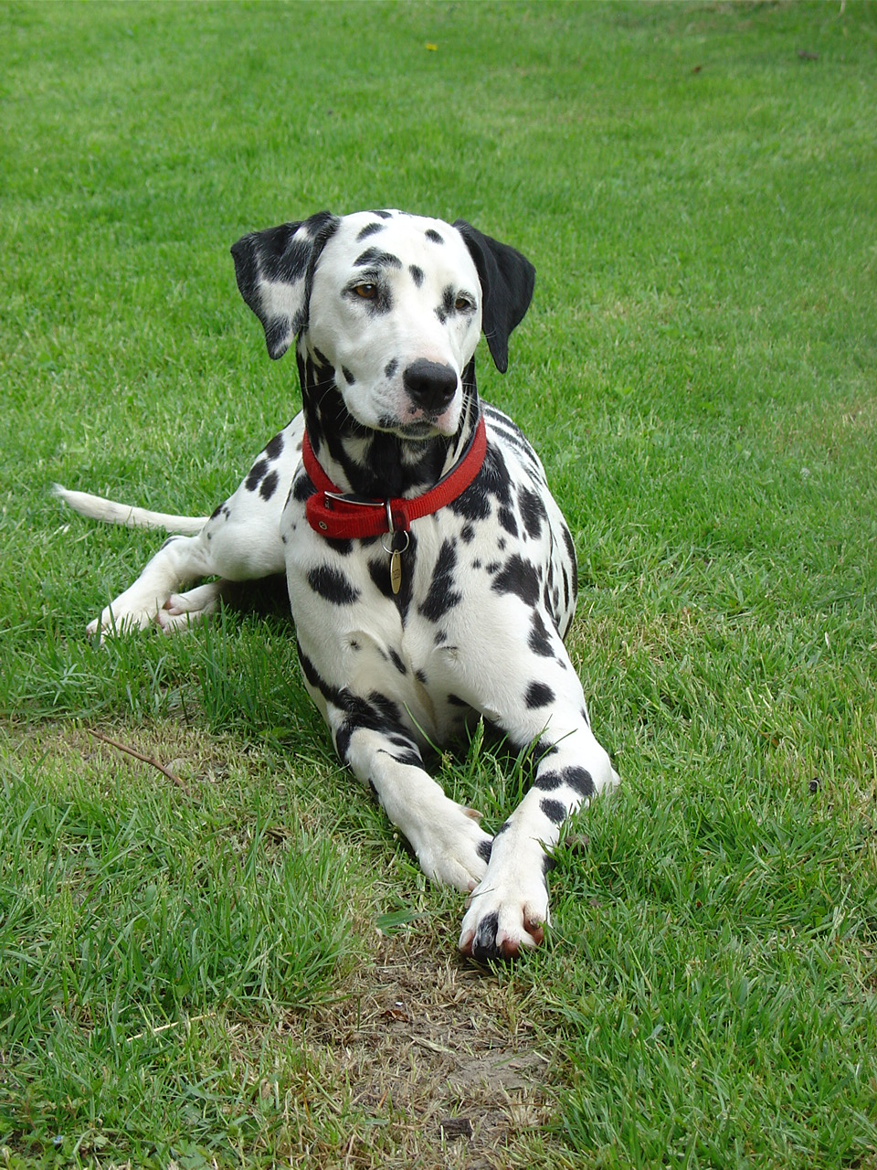 A dalmatian dog.